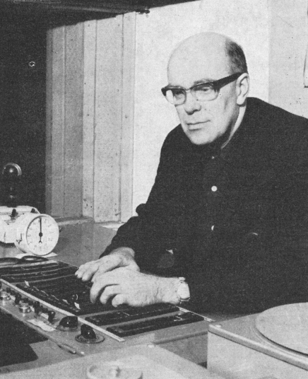 Photograph of the Finnish composer Bengt Johansson (1914–1989).